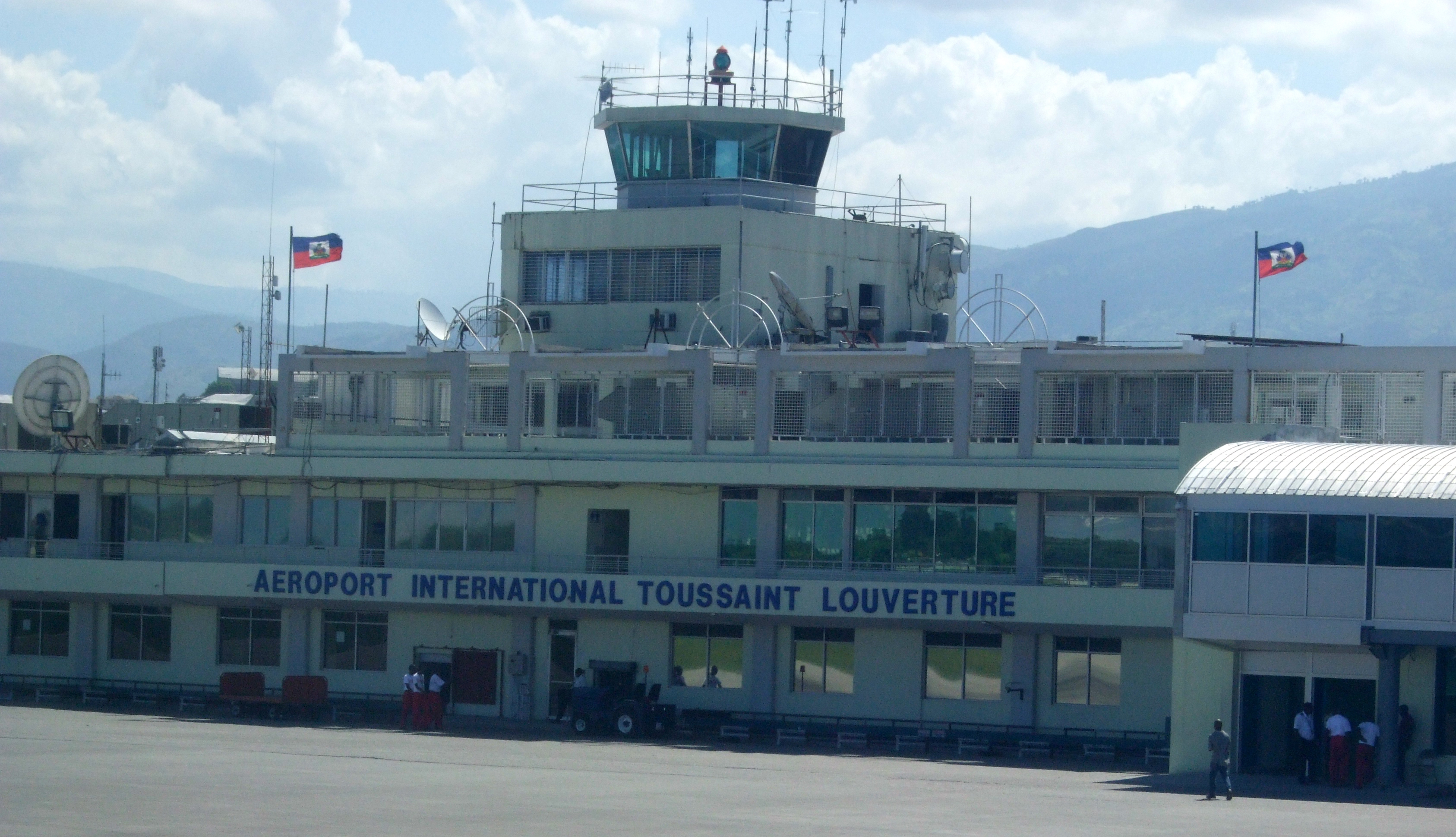 Toussaint Louverture International AirportKreyòl ayisyen : Aewopò Entènasyonal Tousen Louvèti